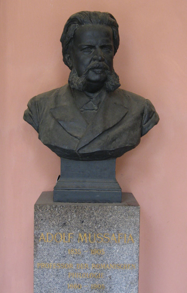 Adolfo Mussafia (1835-1905), Italian born Austrian professor for romance languages, co-inventor of the Tobler-Mussafia law; sculpture at the colonnade of the main building of the University of Vienna